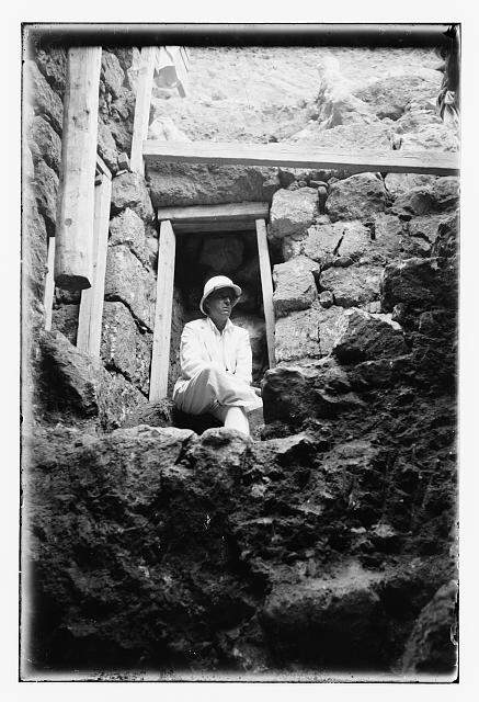 Archaeologist John-Winter Crowfoot